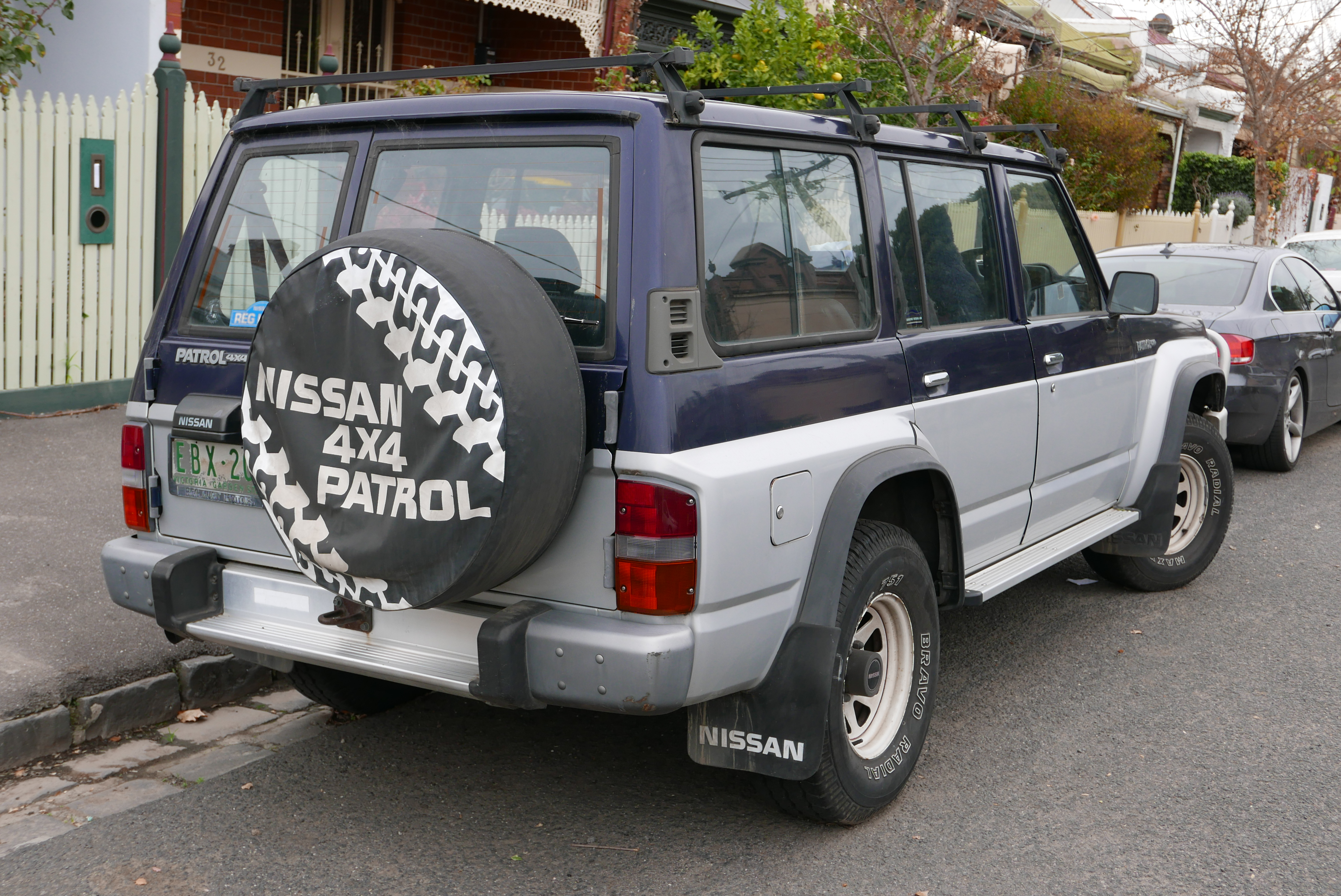 1989 Nissan Patrol (GQ) ST wagon. Photographed in Fitzroy North, Victoria, Australia. Vehicle registration enquiry results Jurisdiction Victoria Registration EBX204 Chassis code JN10WGY60A0016820 Engine code TB42027606 Compliance date 1989-12 Year of manufacture 1989